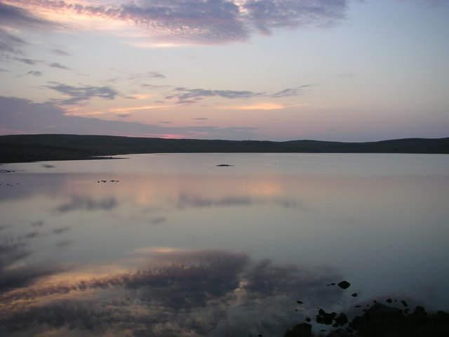 Isbister Loch Calm reflections August